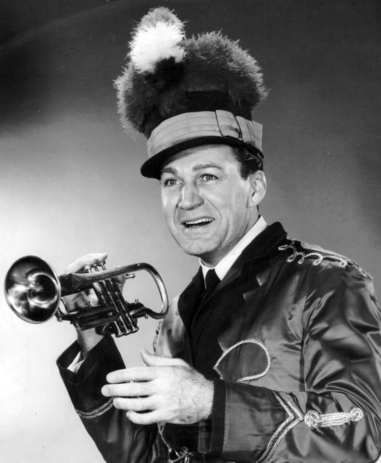 Photo of Forrest Tucker as Professor Harold Hill from the play The Music Man. The Lowell State Teachers College submitted this photo when they gave Tucker an award for his interest in young people and in music educators.